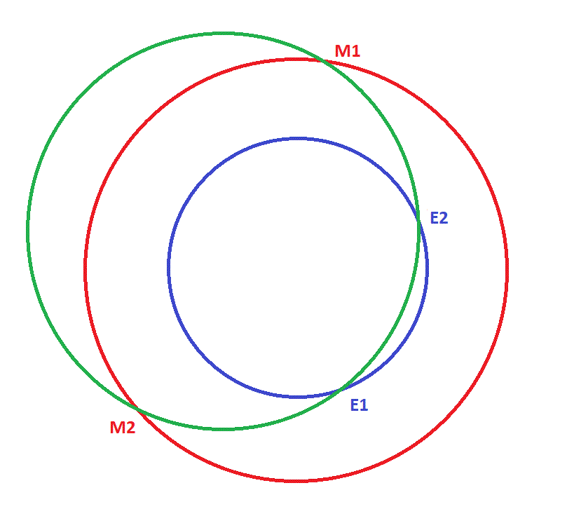 Aldrin cycler. An orbit (green) that cuts the orbits of Earth (blue) and Mars (red) arranged so that it encounters the planets at the points where it crosses their orbits. (Not to scale)